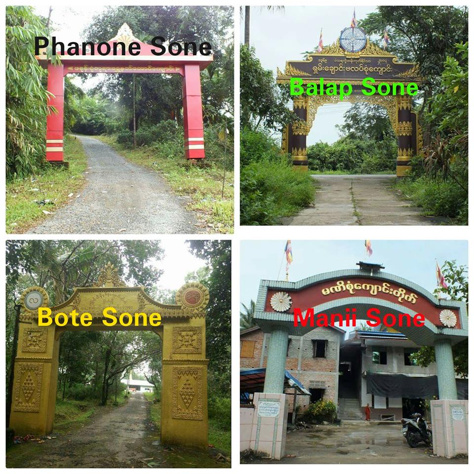 Sone Lay Sone1